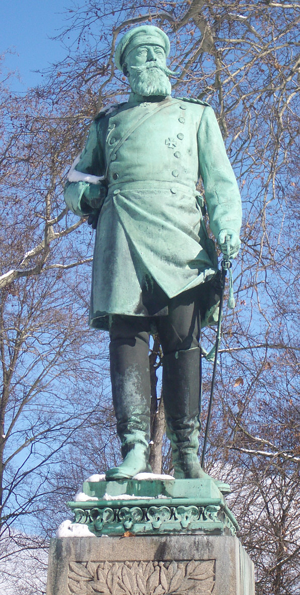 Karlsruhe, Germany: Monument to Prince Wilhelm of Baden (1829–1897). Sculptor: Hermann Volz.